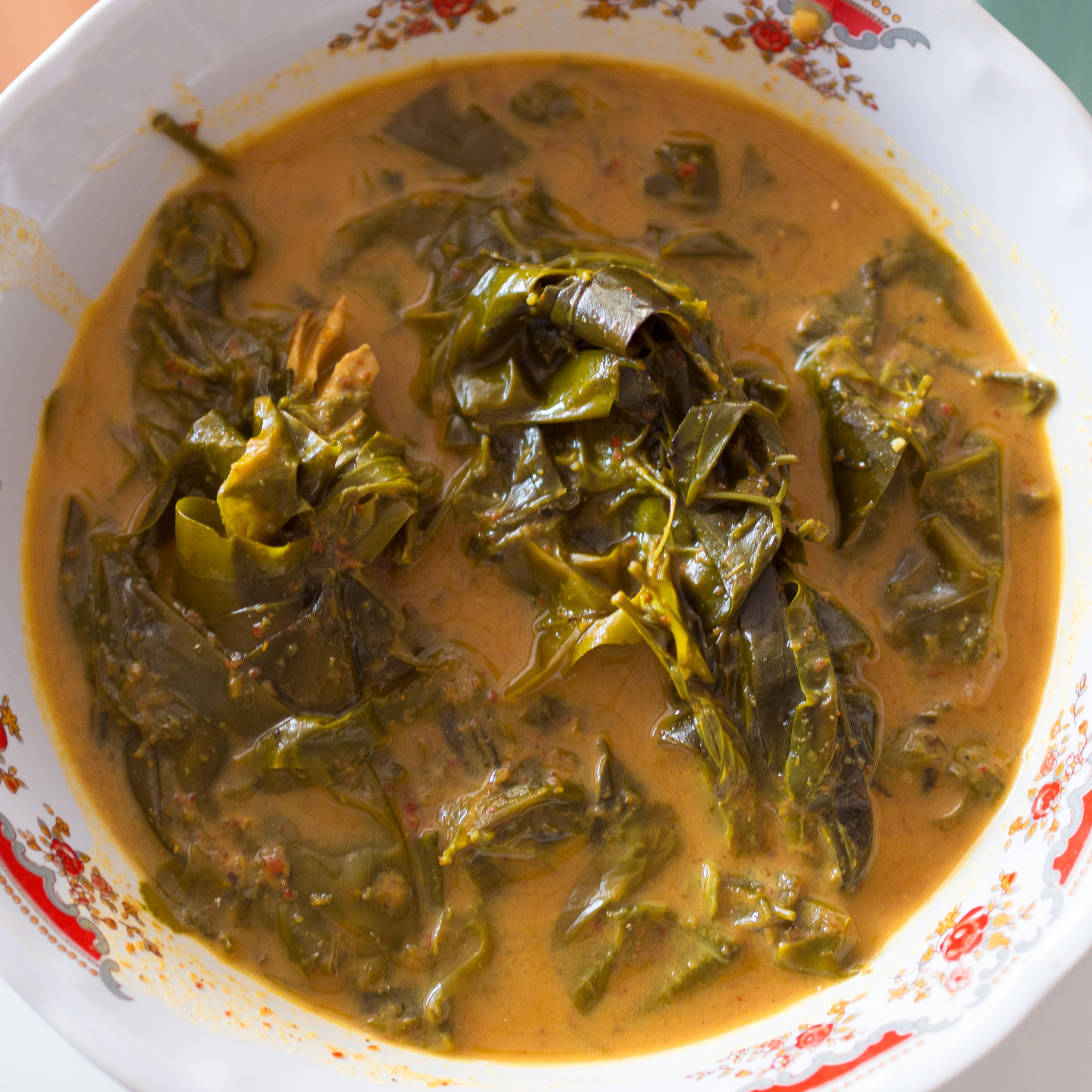 Kaeng khilek (Thai script: แกงขี้เหล็ก) is a southern Thai curry made with the leaves of the kassod tree (Senna siamea)